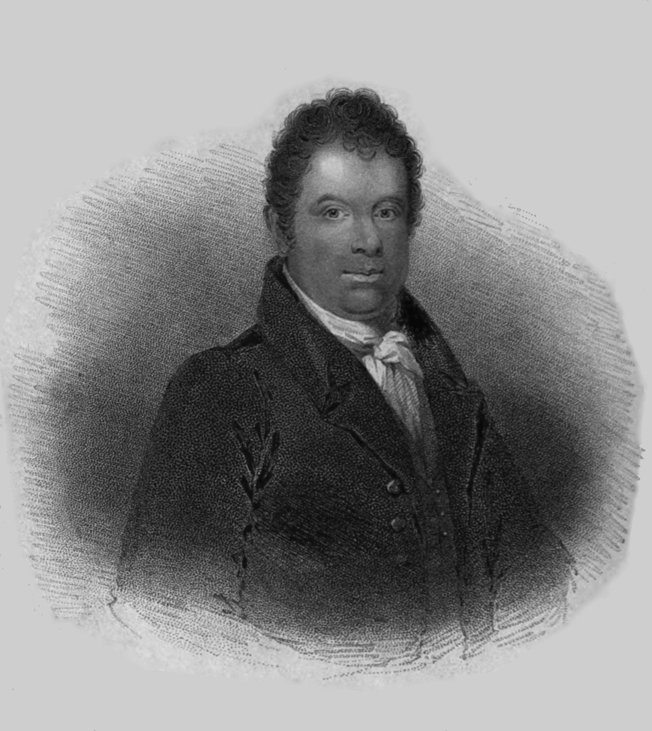 Daniel Tyerman (1773-1828) was a missionary. He traveled to China, Southeast Asia, and India for the London Missionary Society, along with George Bennet.